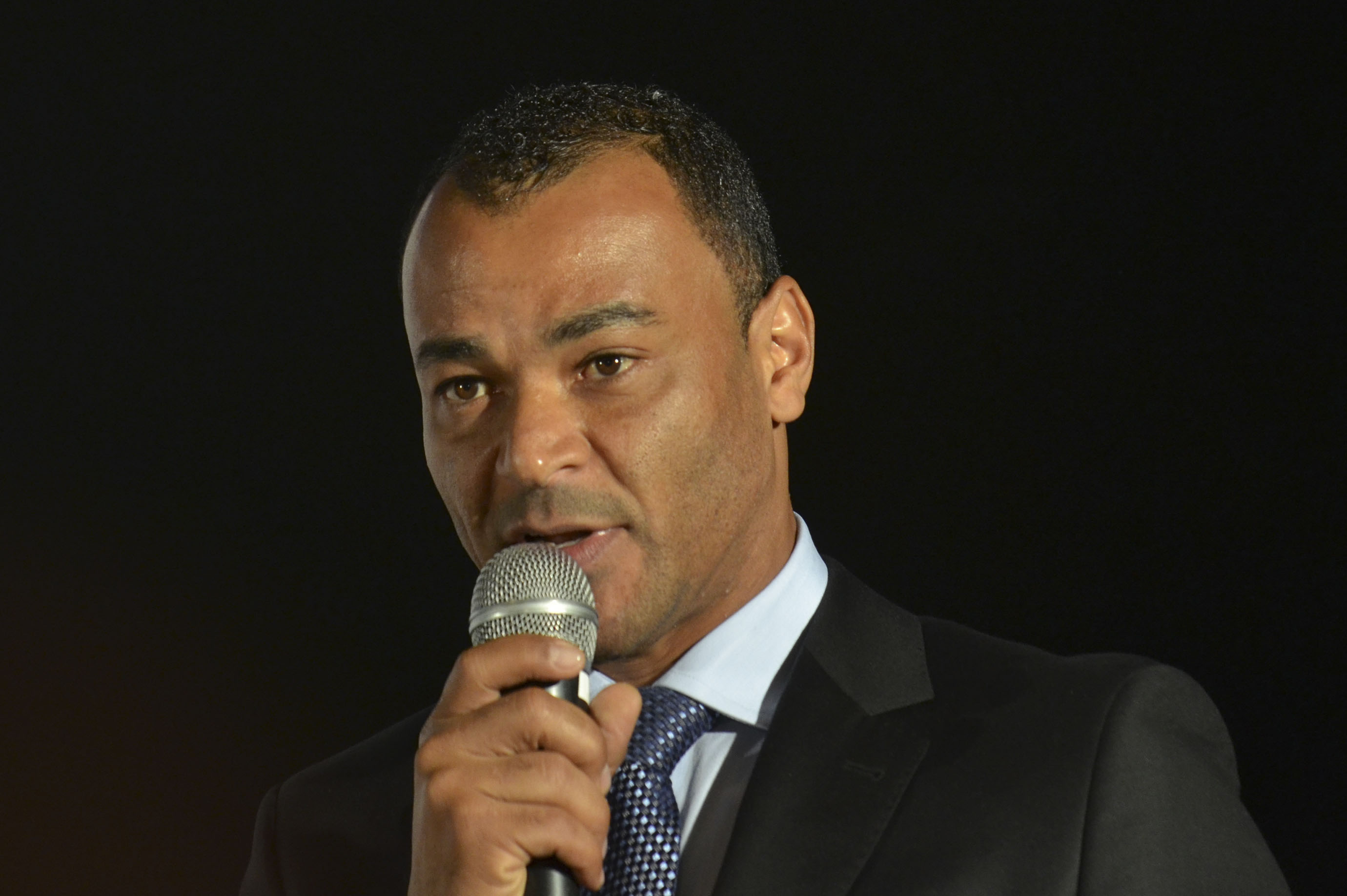 Cafu at exhibition "Brasil, um país, um mundo", Brasília, December 2013